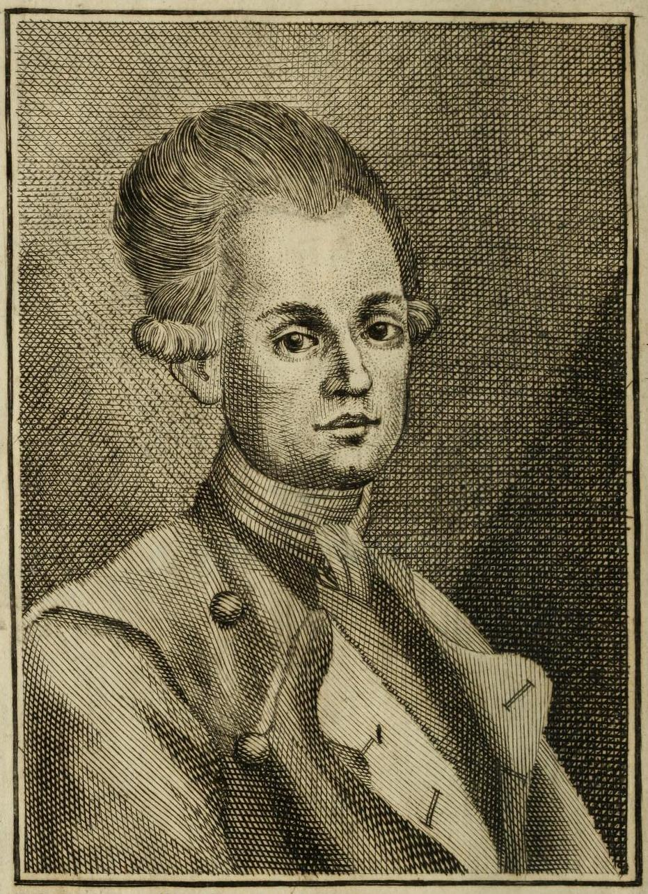 Portrait of the Italian actor and writer, Francesco Bartoli (1745-1806) The portrait is taken from the frontispiece of his book, Notizia delle pitture, sculture ed architetture, che ornano le chiese, e gli altri luoghi pubblici di tutte le più rinomate città d'Italia, e di non poche terre, castella, e ville d'alcuni rispettivi distretti, published in Venice in 1776 by Antonio Savioli